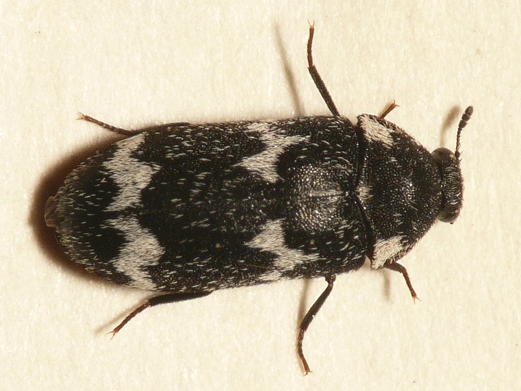 Megatoma undata. Location: The Netherlands - Rhenen - Blauwe Kamer